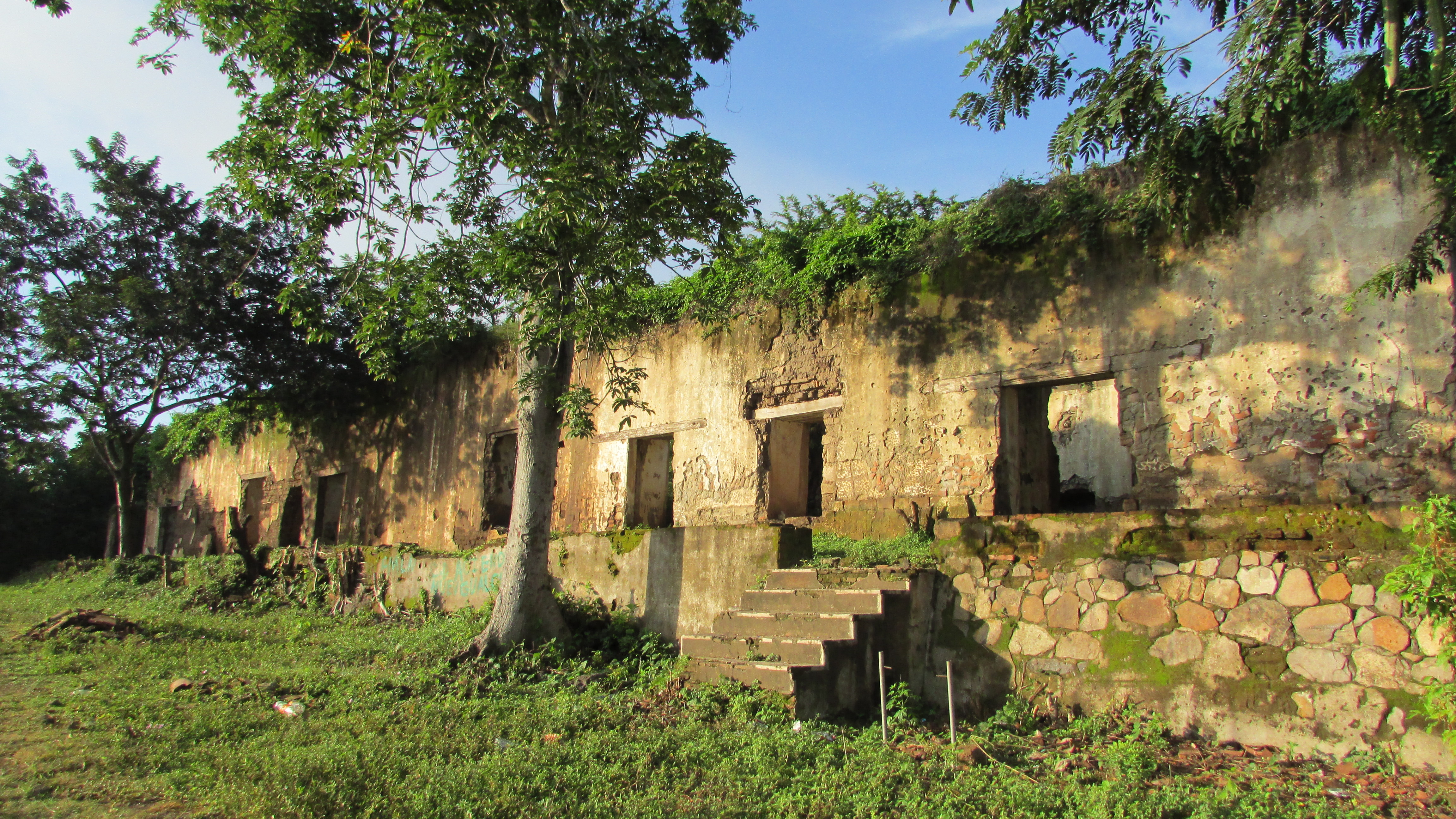 Site of the 1828 battle where Francisco Morazan led troops to help form the Federal Republic of Central America - part of the stunning ecotourism route in Nuevo Gualcho, El Salvador